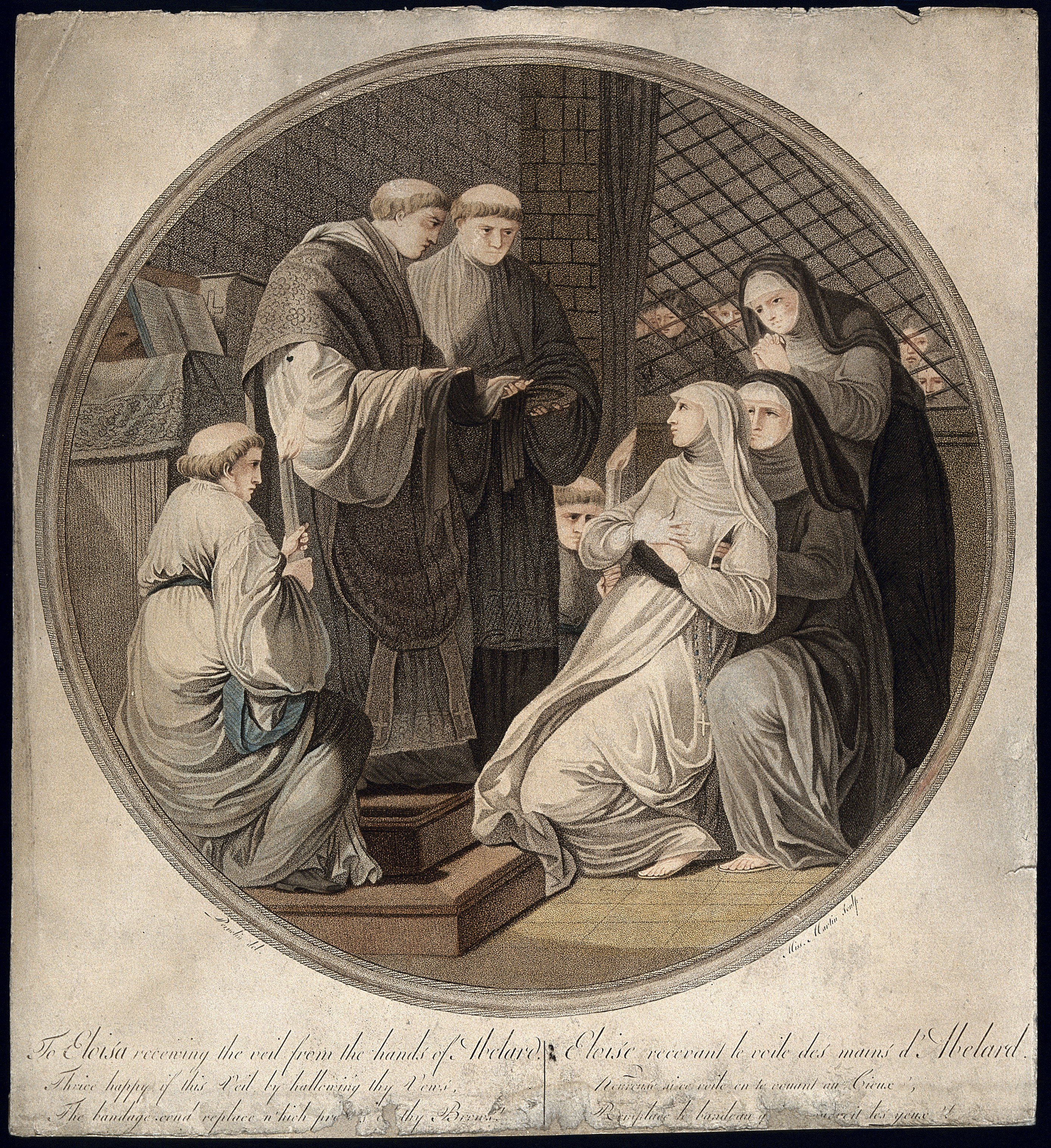 Abelard and Eloise confessing their love to his brother monks and her sister nuns. Coloured stipple engraving by Miss Martin after Perolia (?). Iconographic Collections